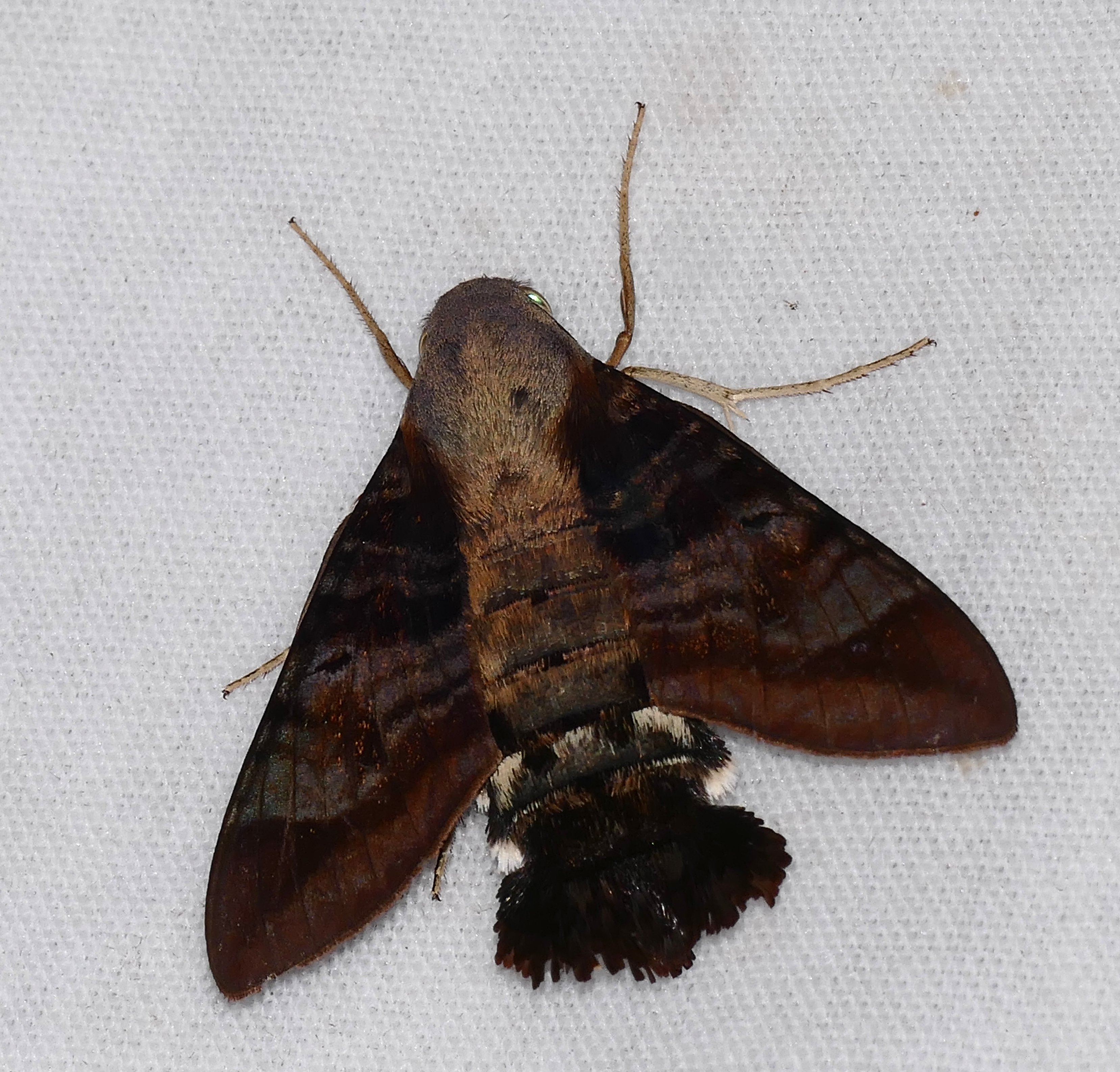 D6 Route de Kaw, Roura, French Guyana, FRANCE